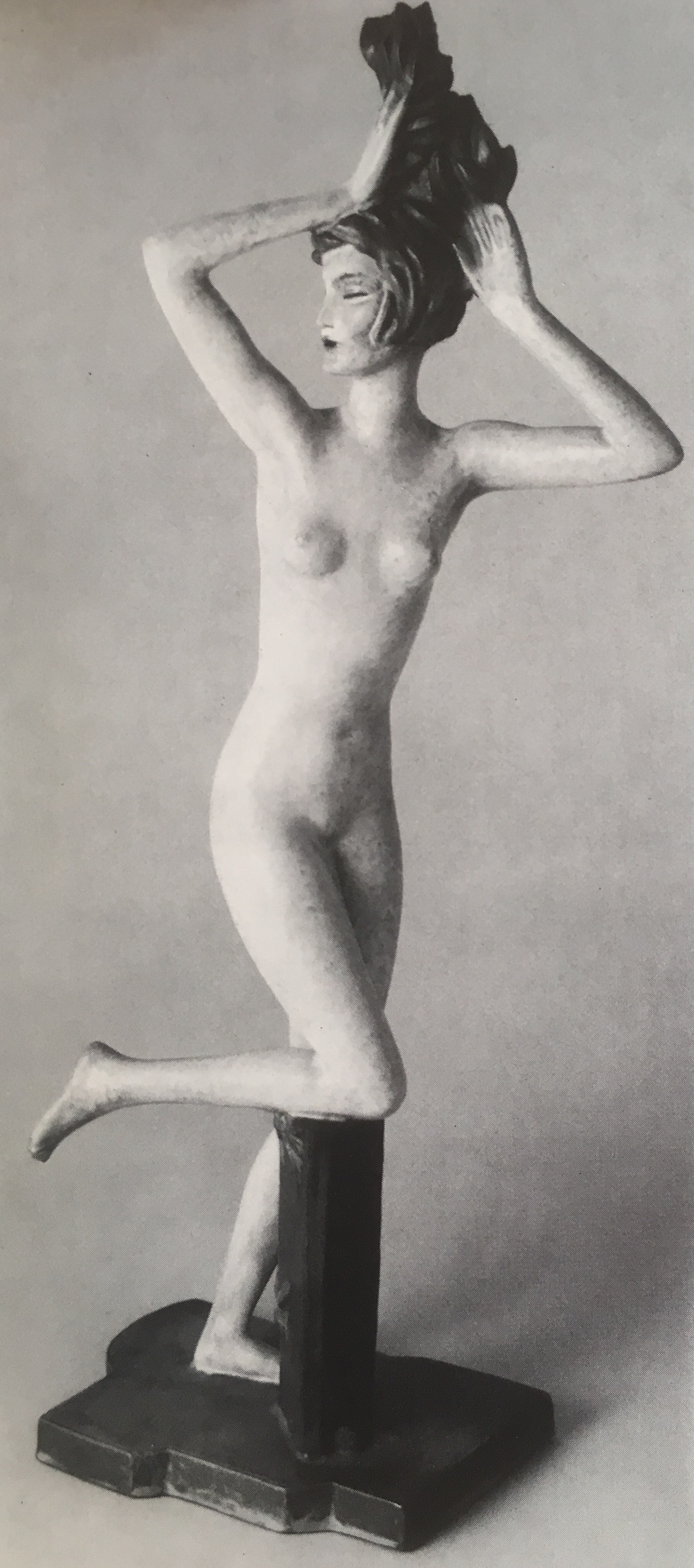 Keramos Daphne